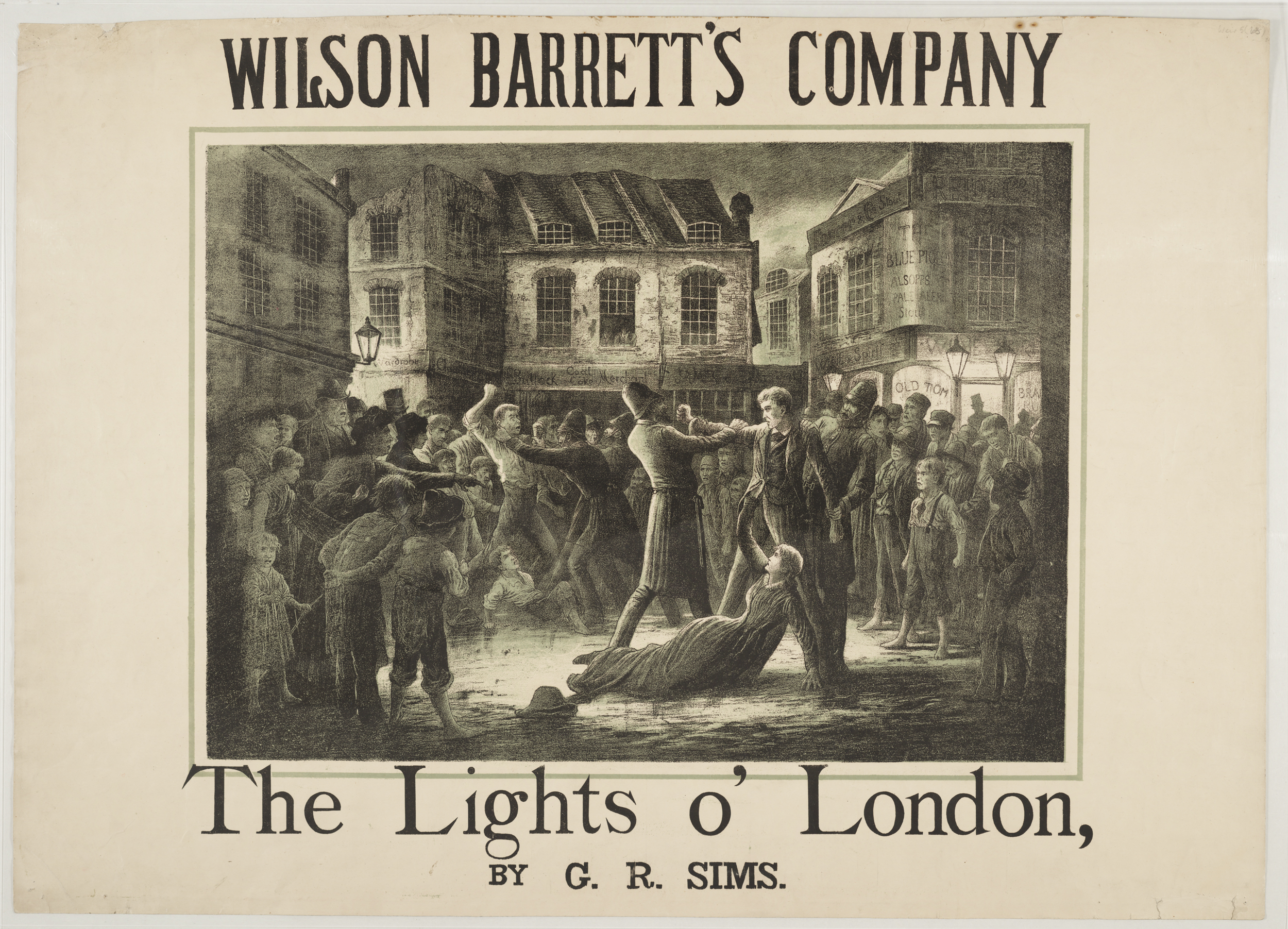 Wilson Barrett's Company. By G. R. Sims. Edinburgh production(?)